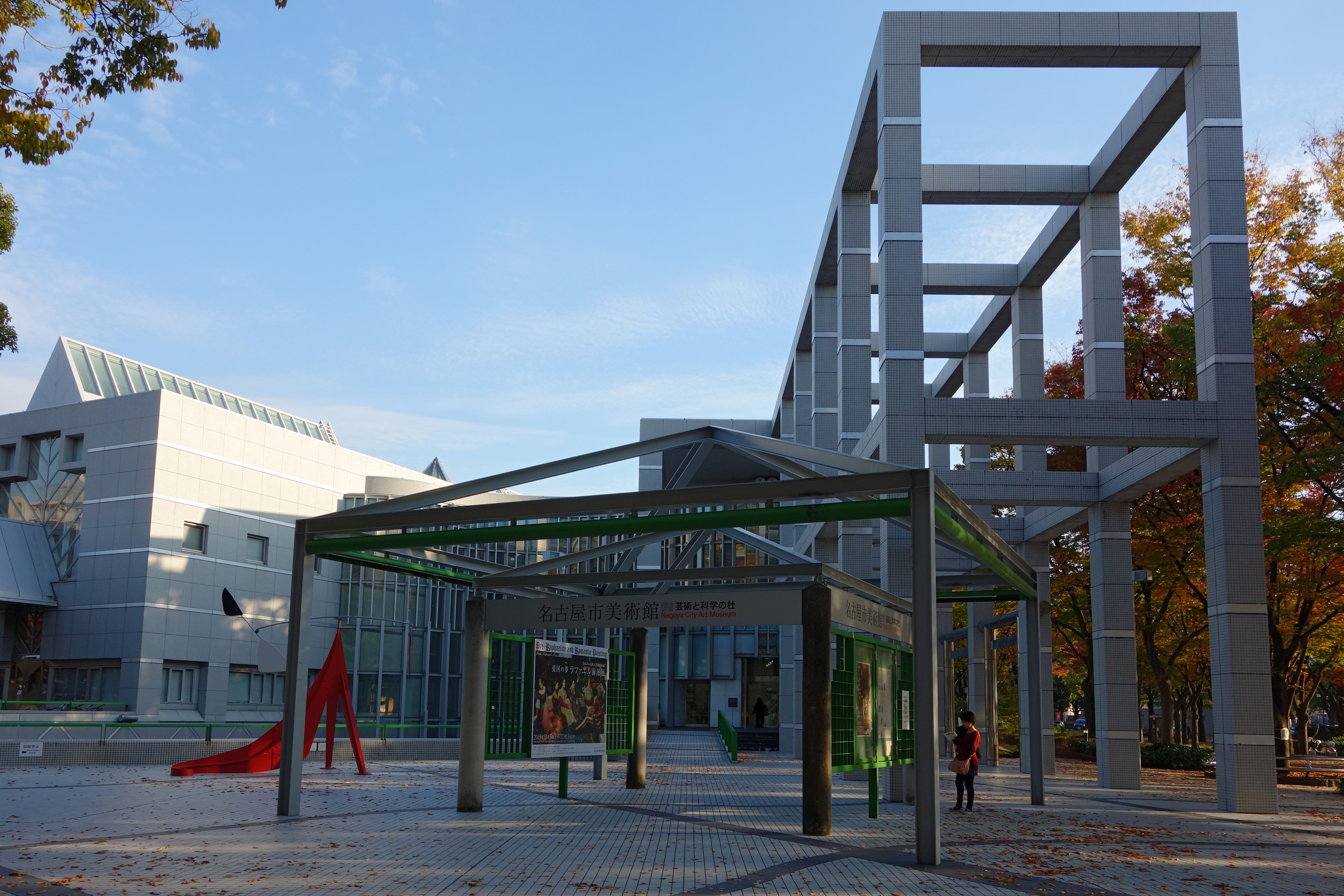 Nagoya City Art Museum, Nagoya, Aichi prefecture, Japan.